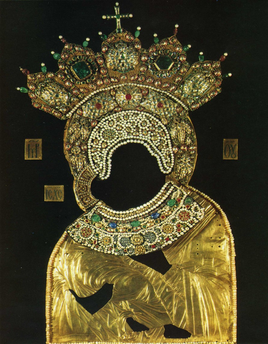 Riza for, 1657. Currently displayed at The Museum of Moscow, Kremlin.